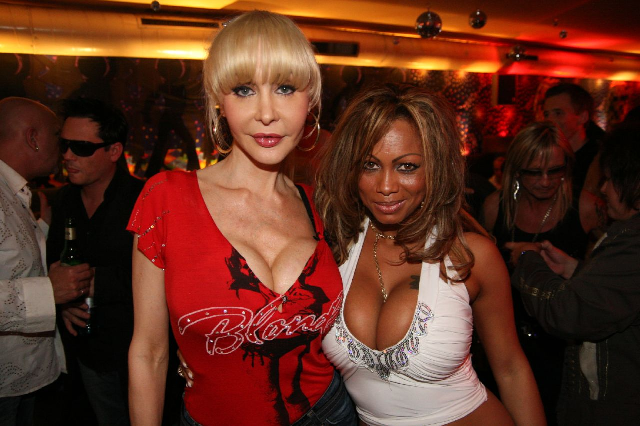 Dolly Buster and Yaneysis Cervantes (see [1]), 2007